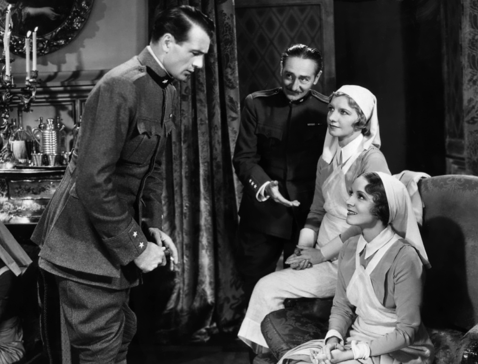 Left to right: Gary Cooper, Adolphe Menjou, Mary Philips, and Helen Hayes in A Farewell to Arms (1932) - cropped screenshot